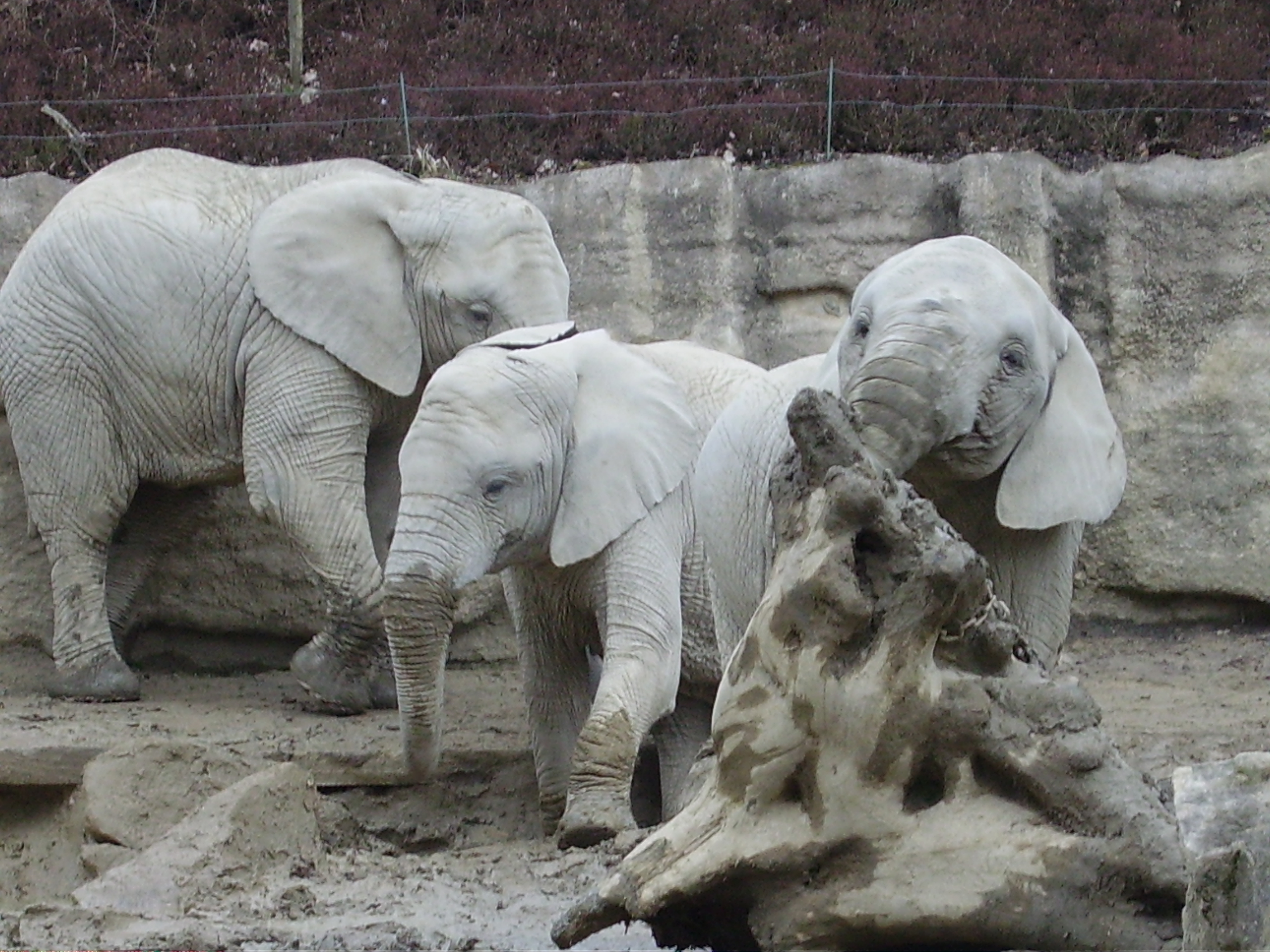 African Bush Elephant - Zoo Zlín